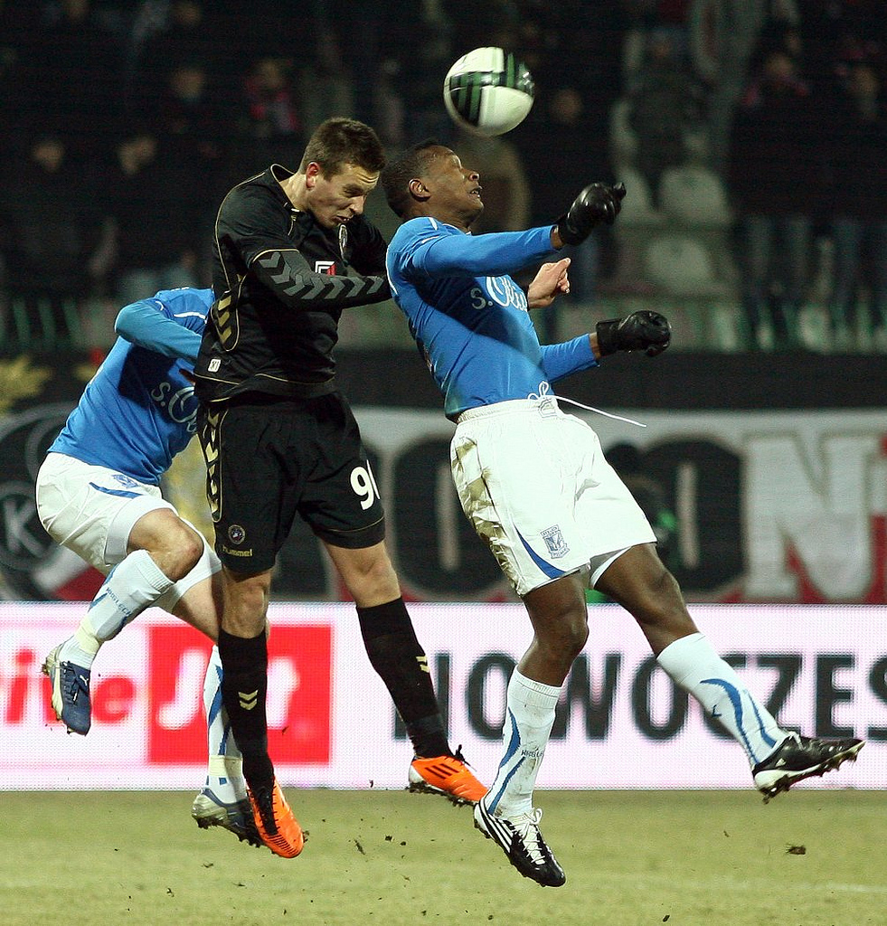 Artur Sobiech (centre) of Polonia Warszawa head to head with Manuel Arboleda (right) of Lech Poznań in a Polish Cup match